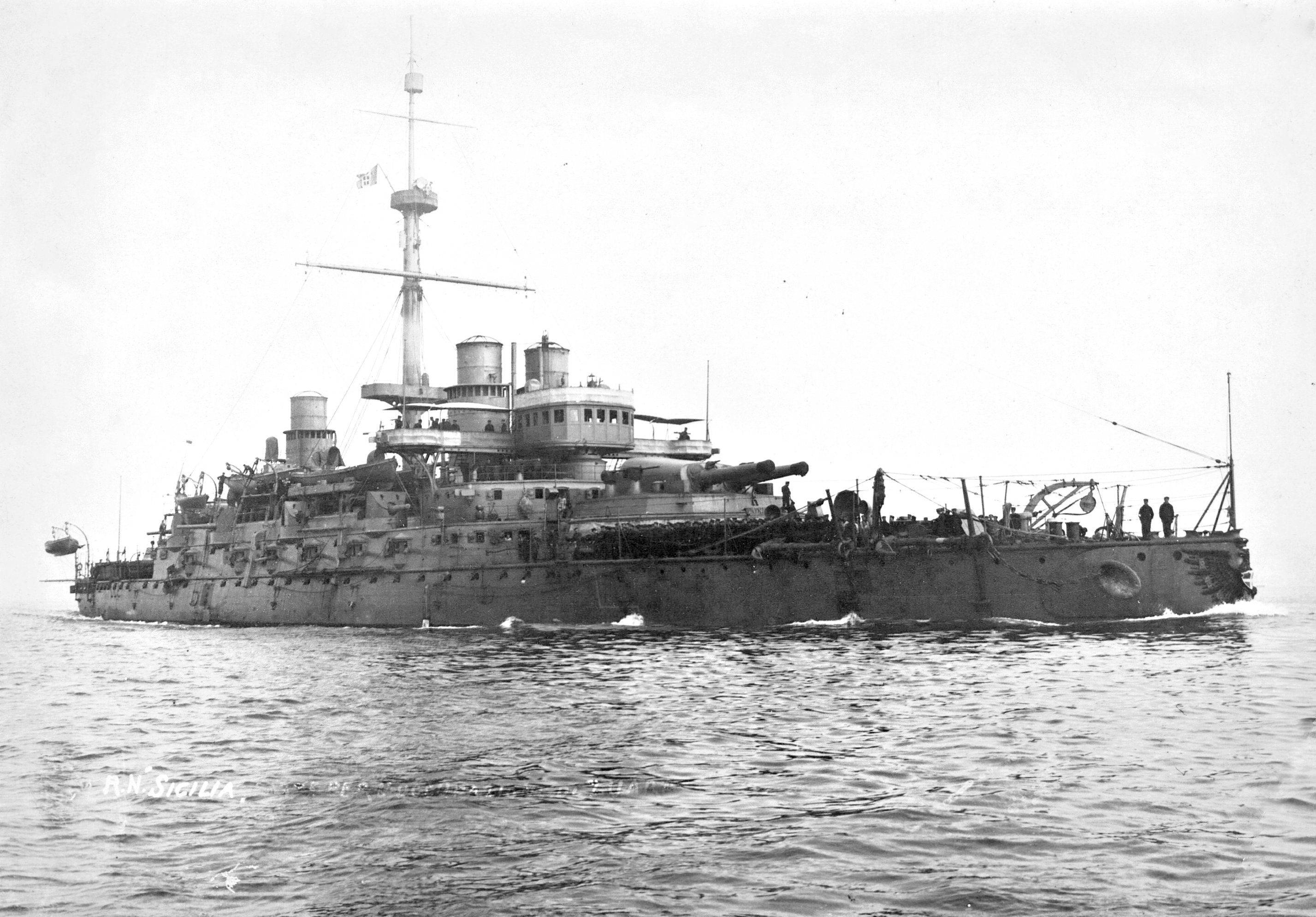 HM Ship Sicilia. The original picture, scanned by Emiliano Burzagli, belongs to the Private archive of Burzagli family, Italy.